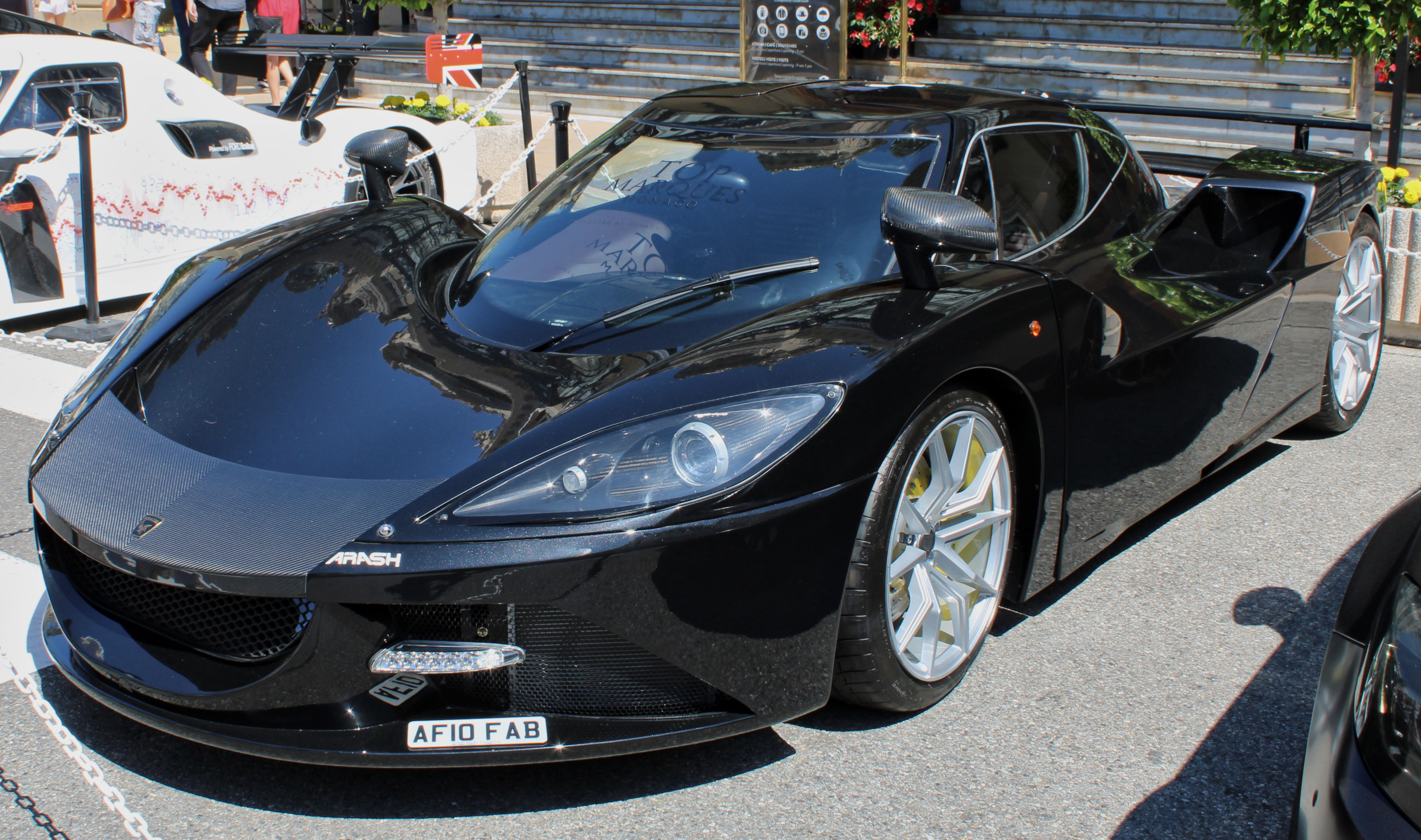 Arash AF10 in Monaco